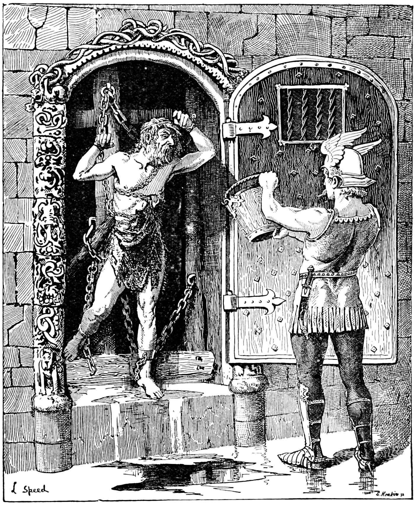 Illustration from "The Death of Koschei the Deathless" in The Red Fairy Book, 1890.